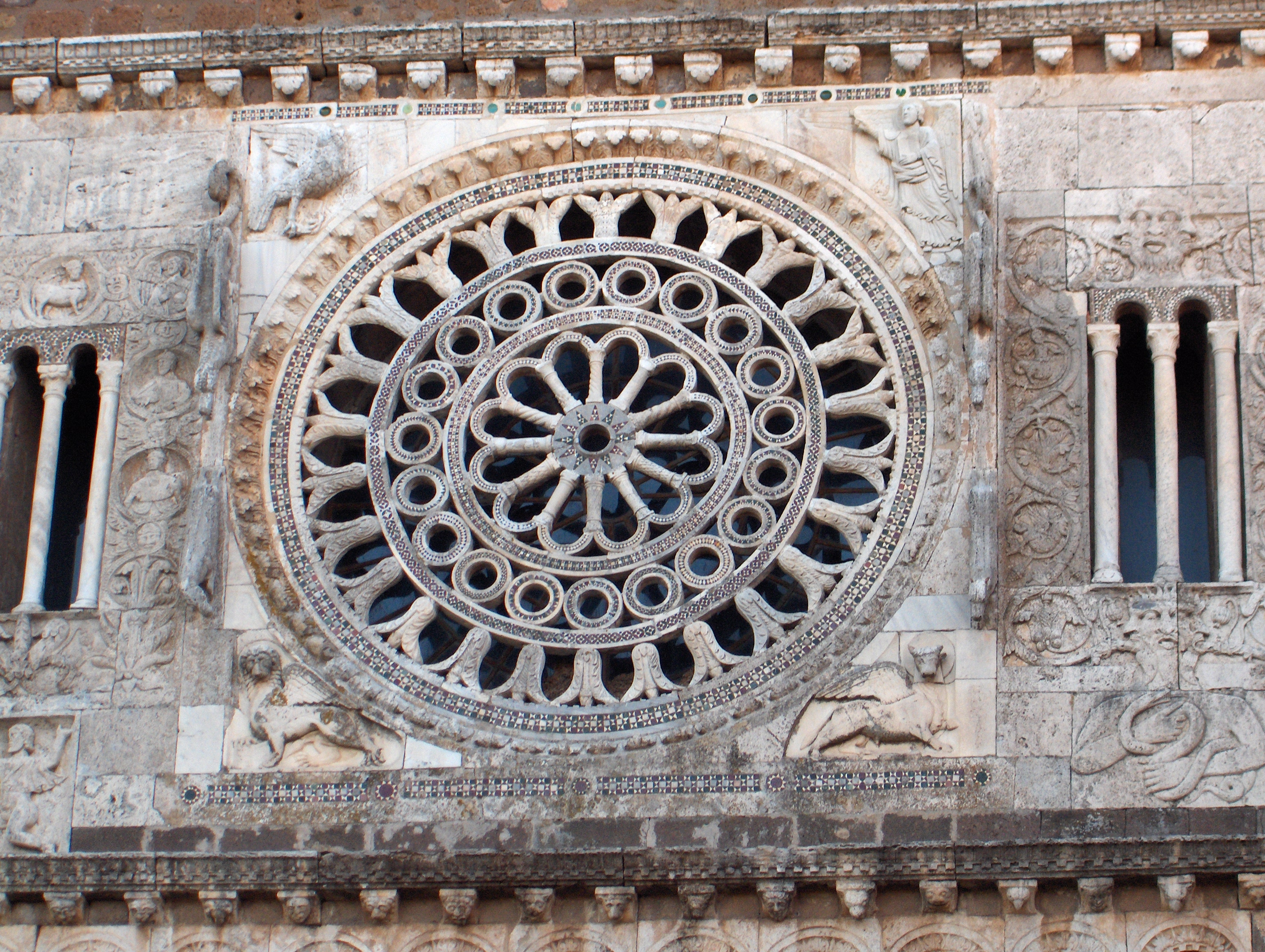 Front view of San Pietro Basilica (part) in Tuscania (VT), Italy